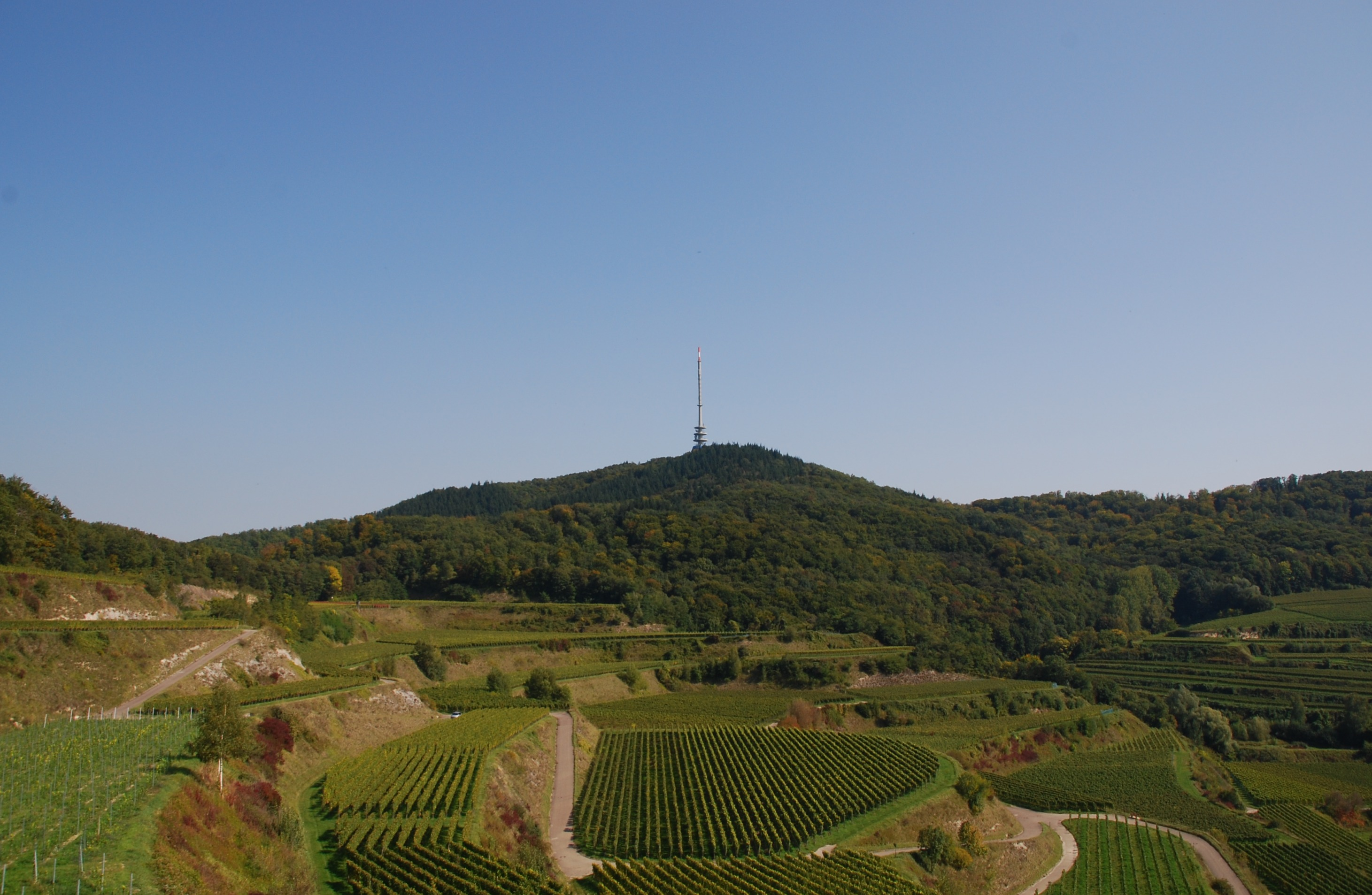 Mountain Totenkopf (556.6 m)